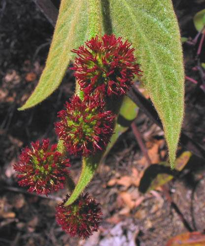 Platanus racemosa at Circle X Ranch: Grotto trail, Santa Monica Mountains National Recreation Area, California, USA.